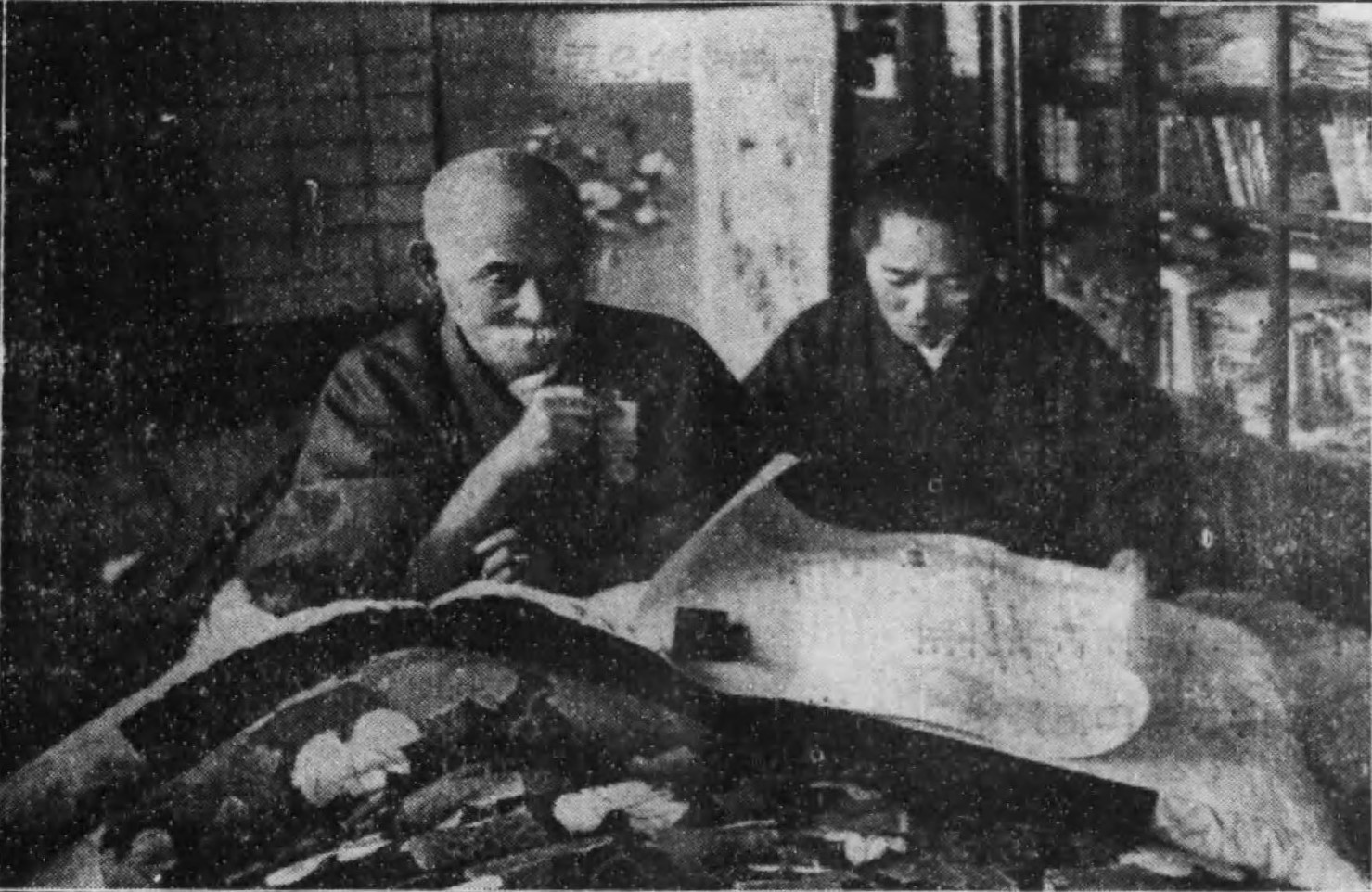 Nawa Yasushi, a Japanese entomologist and his wife on 20th January 1923.